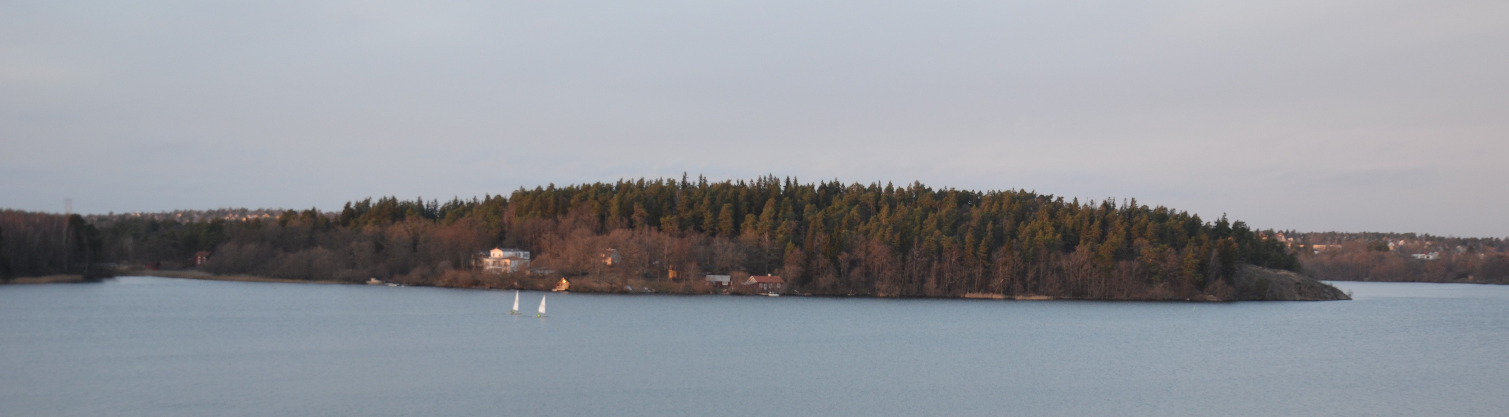 Björnholmen, Ekerö, photographed from Mälarhöjden.